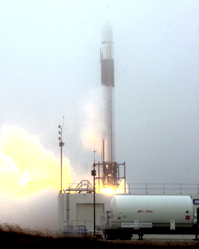 The main engine of the SpaceX Falcon I rocket ignites during a full-wet dress rehearsal at Vandenberg Air Force Base Space Launch Complex 3 West.